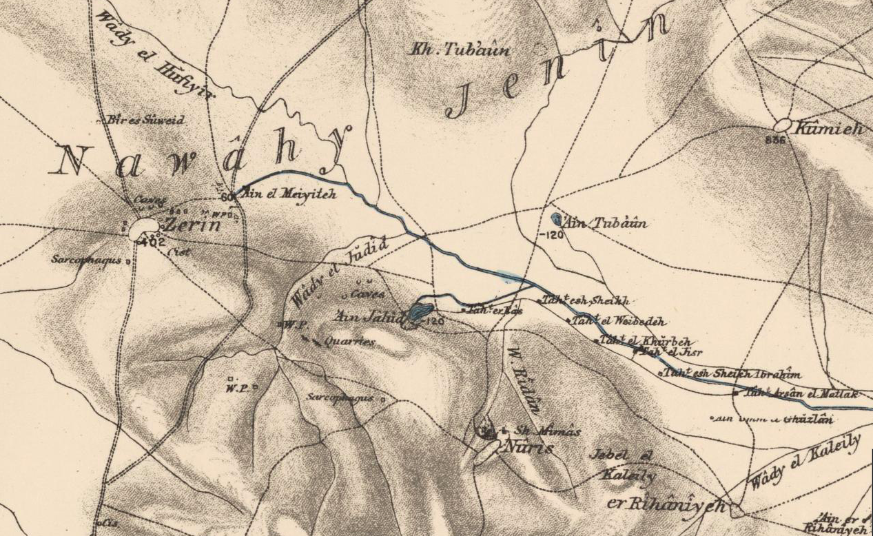 Ain Jalud in the PEF Survey of Palestine